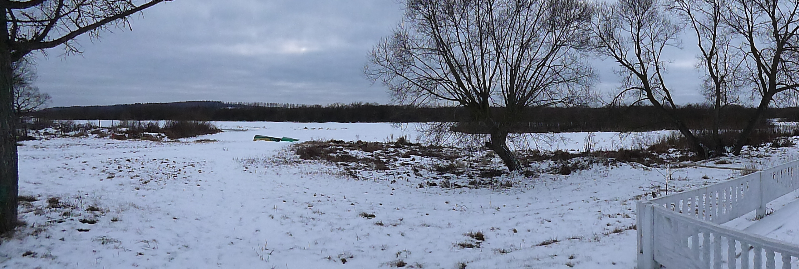 View on the Berezina from the village pump looking west.